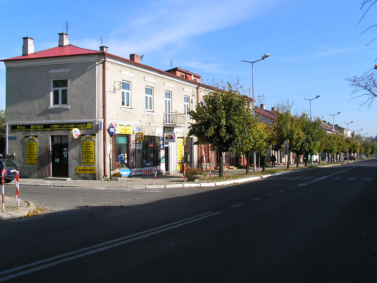 autor: Yarek shalom 19:52, 19 October 2006 (UTC)yarek shalom